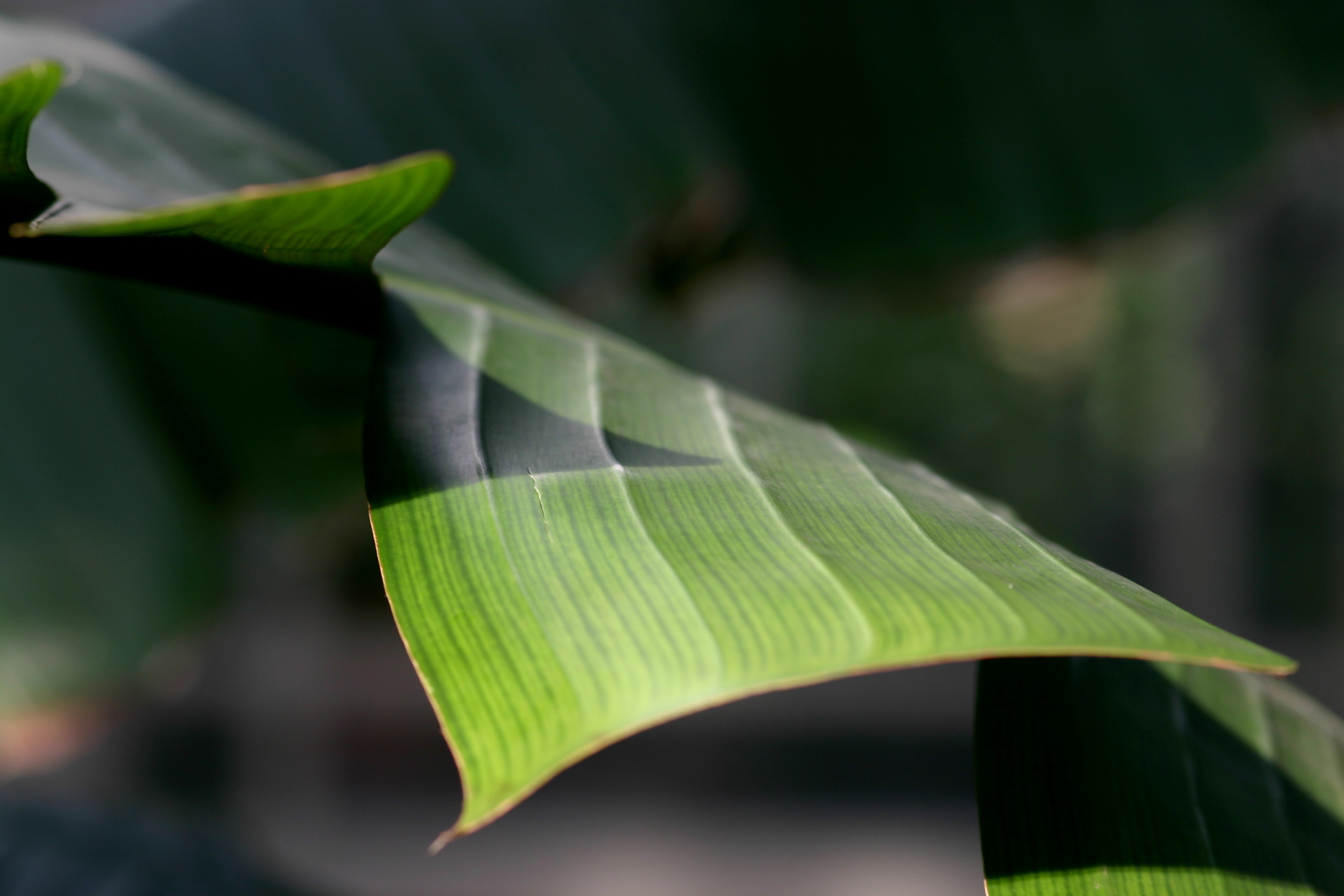 Strelitzia nicolai, commonly known as the giant white bird of paradise or wild banana, is a species of banana-like plants with erect woody stems reaching a height of 6 m (20 ft) and the clumps formed can spread as far as 3.5 m (11 ft). This media file is produced by Wikipedian in Residence in Botanical Garden Jevremovac in 2015.